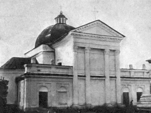 Parish Catholic Church in Mаhiloŭ